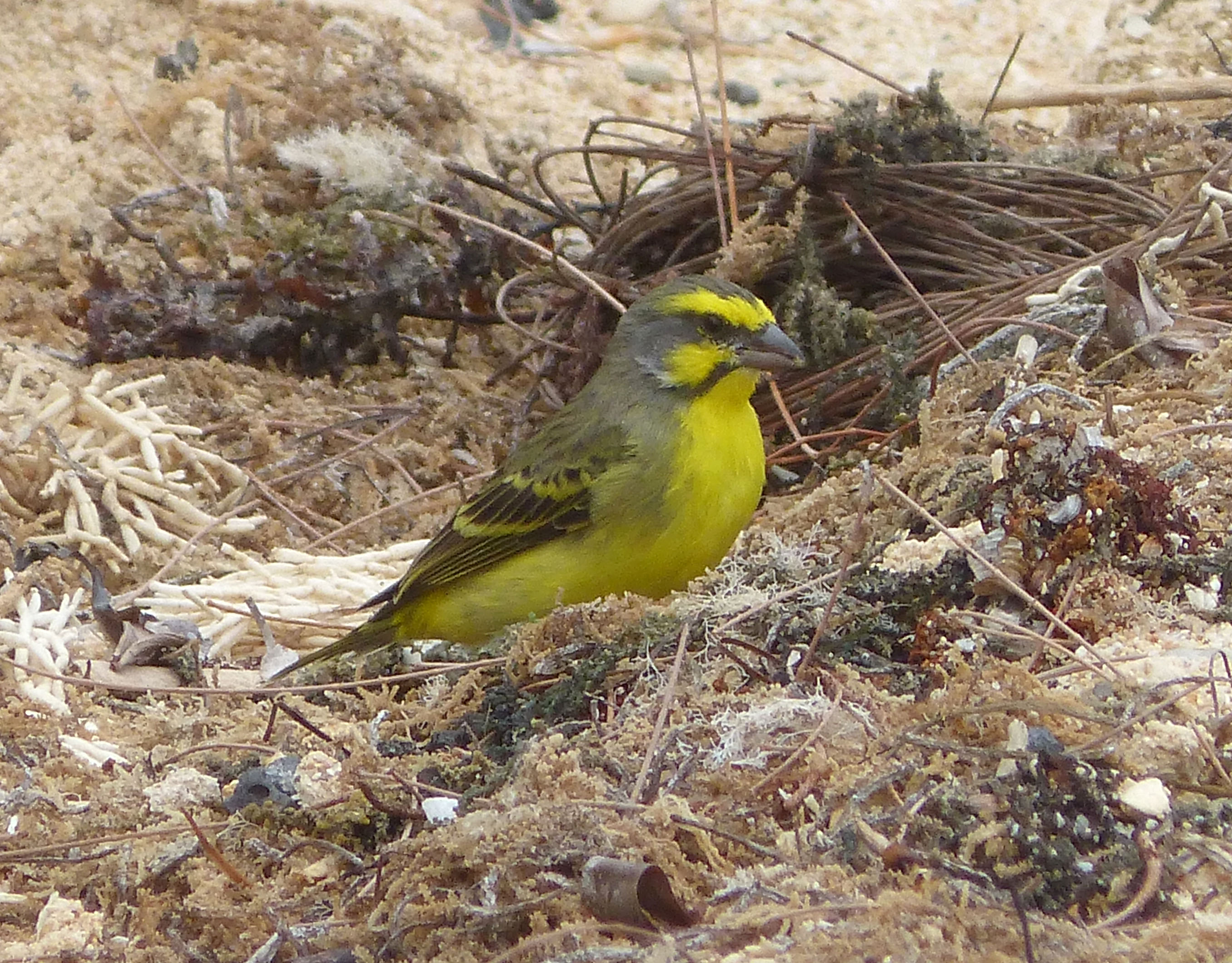 Yellow-fronted Canary Crithagra mozambica, male, feral, Mauritius.